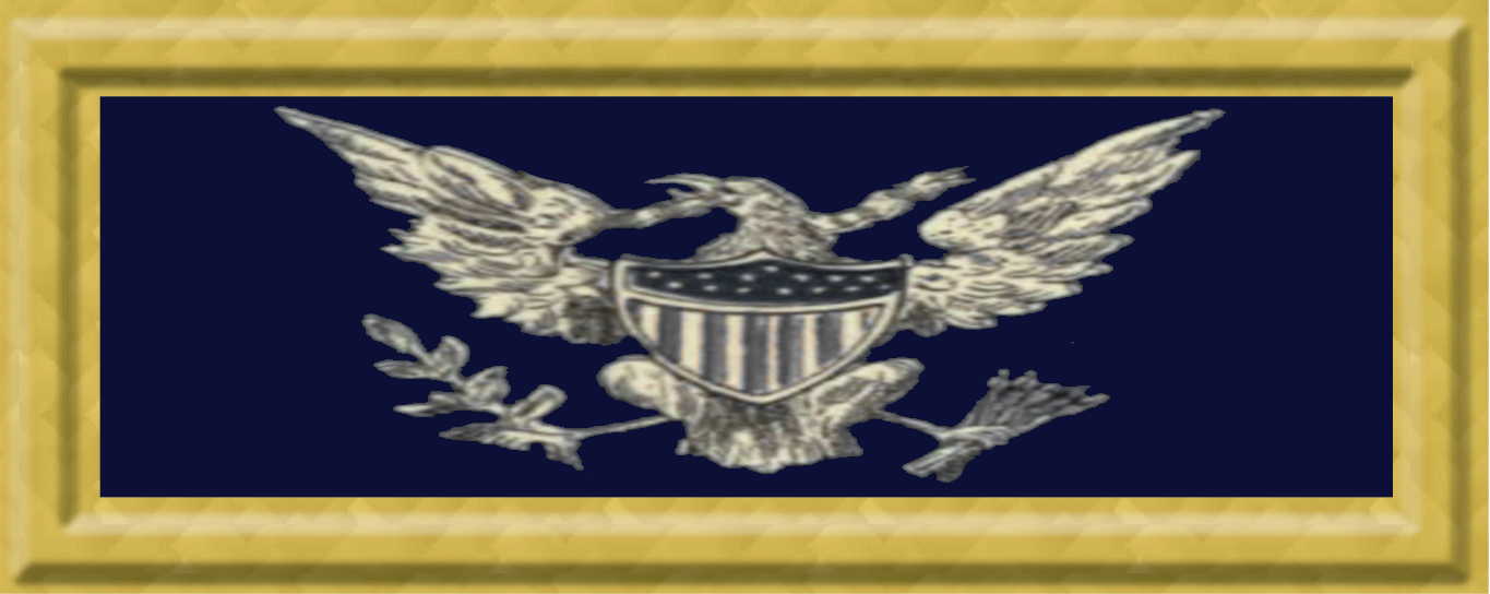 Union Army colonel rank insignia.